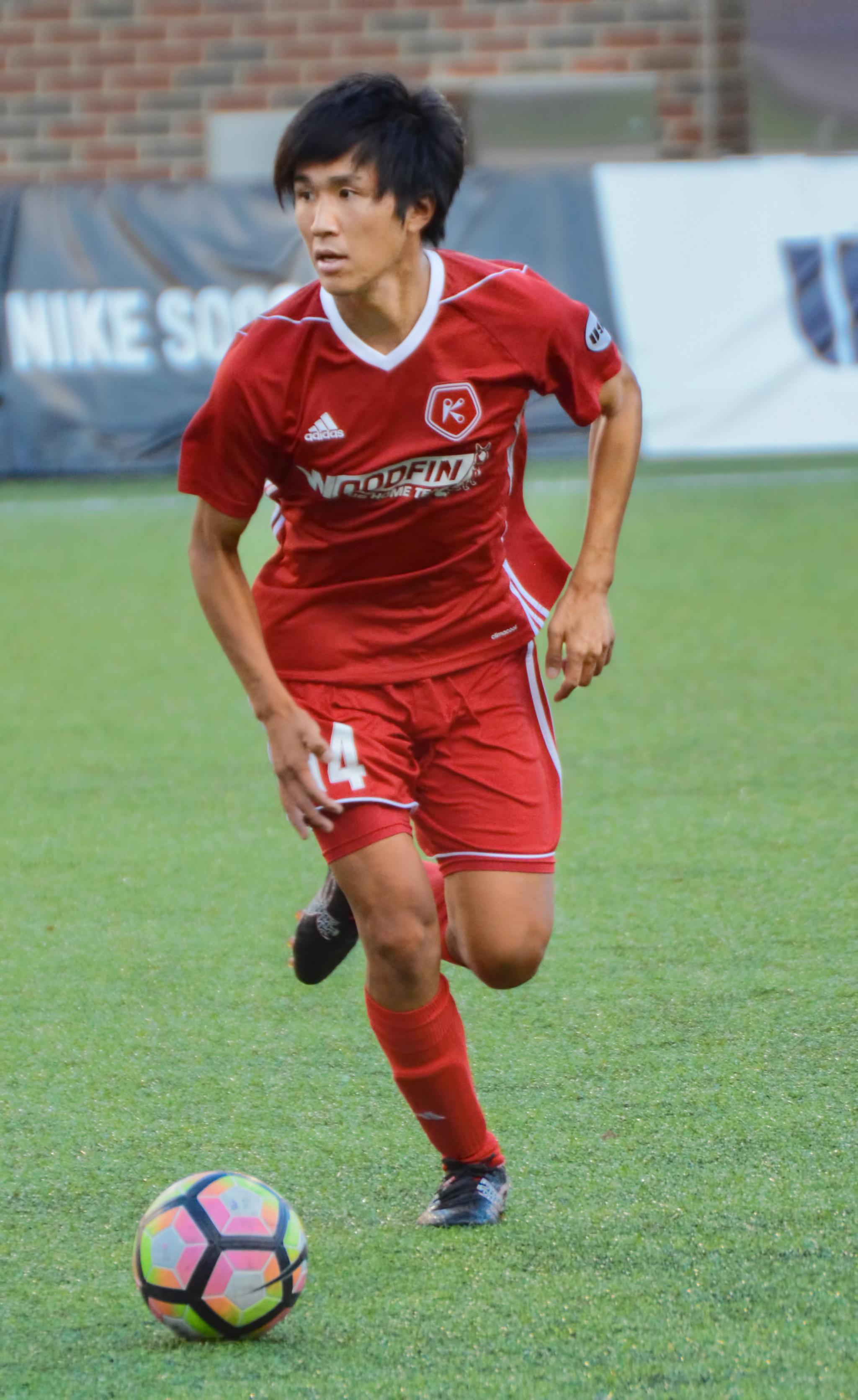 Japanese footballer Yudai Imura, a midfielder for Richmond Kickers, running with the ball during a USL regular season match against FC Cincinnati at Nippert Stadium in Cincinnati, USA on July 9, 2017.